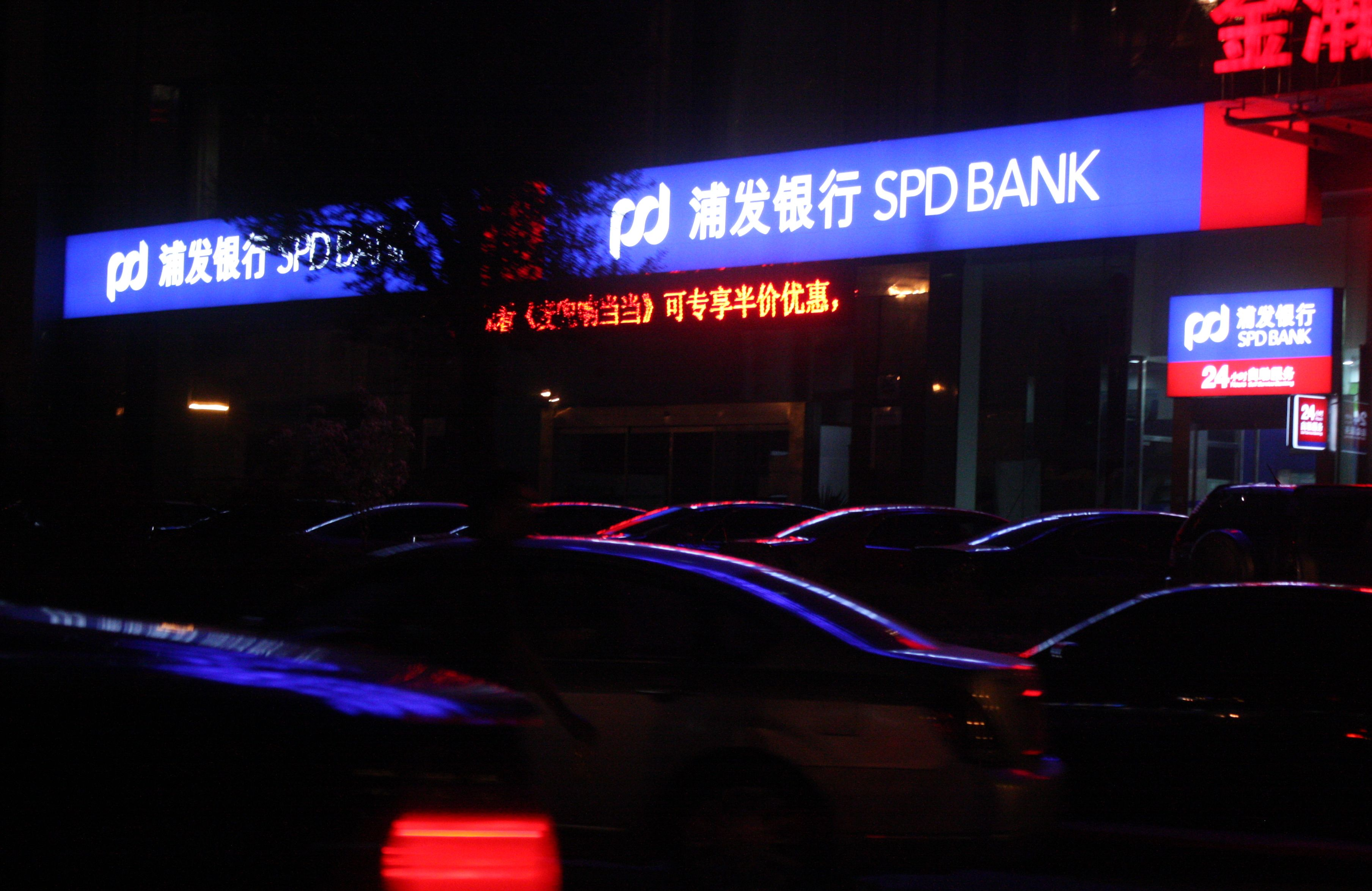 Shanghai Pudong Development Bank (SPD Bank) in Wuhan/China